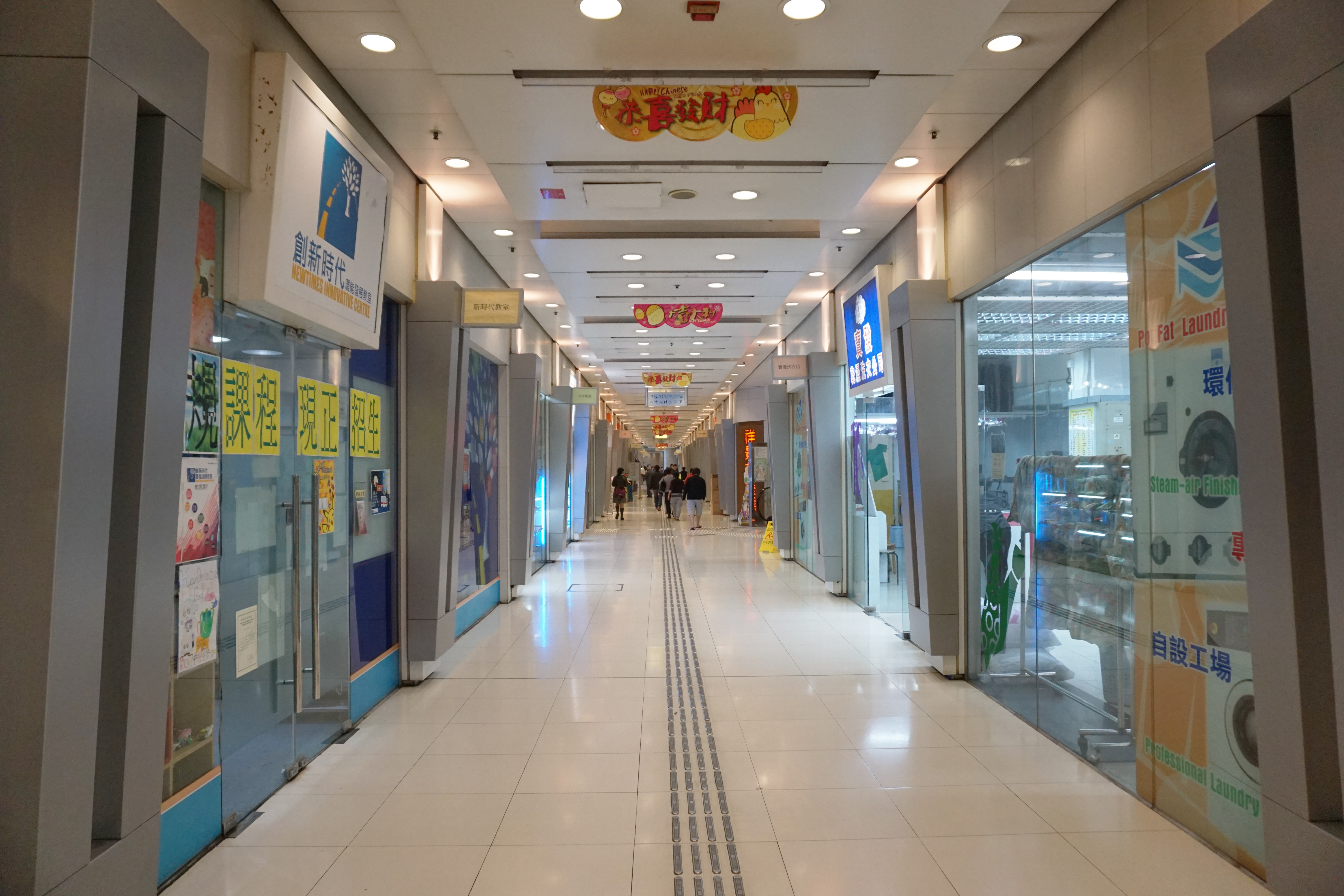 Hoi Lai Shopping Centre in Lai Chi Kok, Hong Kong.